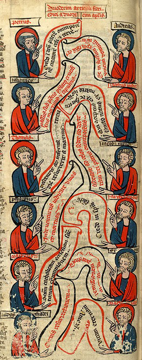 "Twelve articles of faith set out by twelve apostles". Illuminated manuscript of the Apostles' Creed.